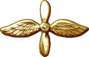 Collar insignia of the Russian armed forces, here “branch insignia – Air Force”.